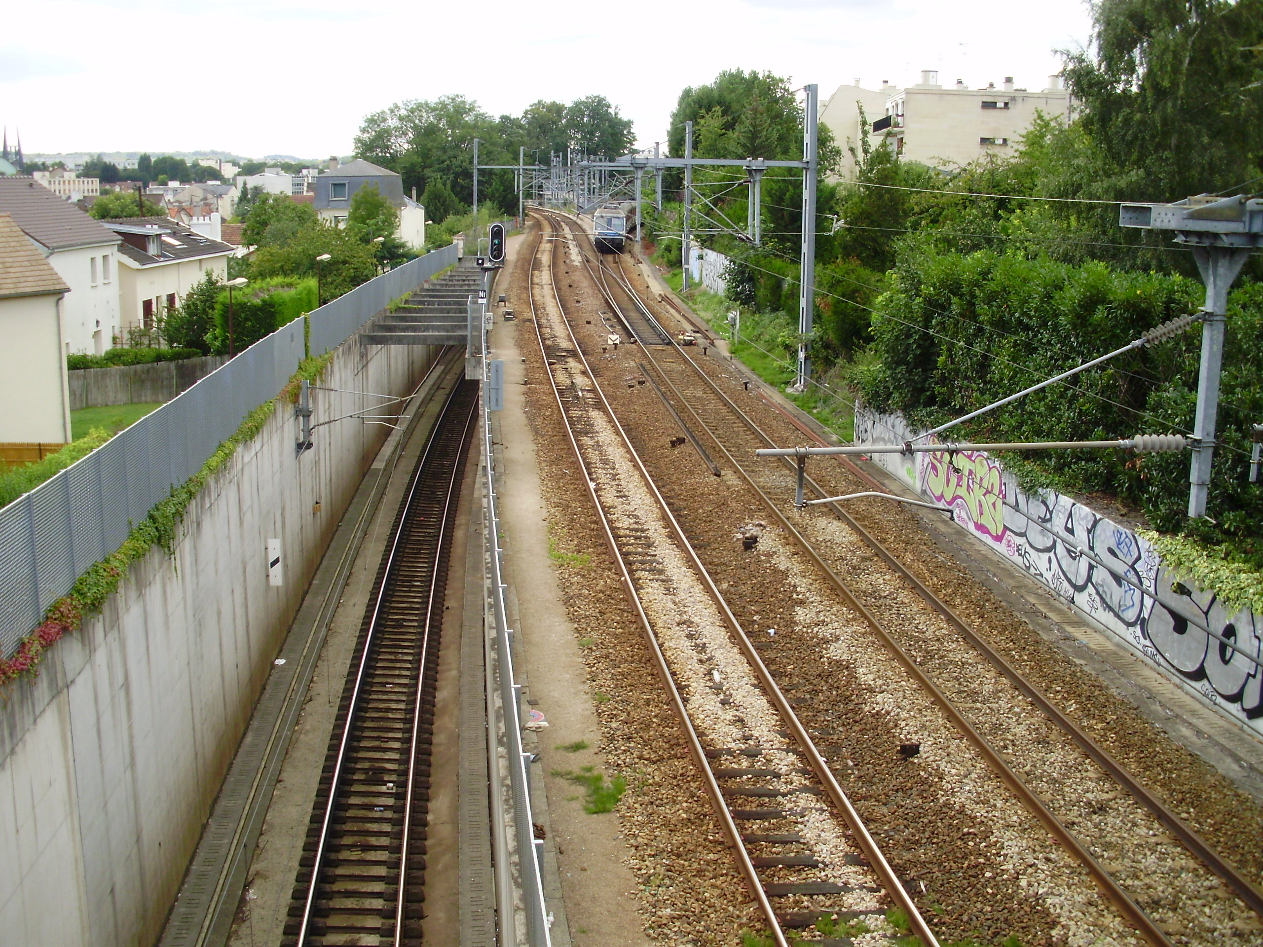 Junction of Viroflay (Rive Droite), in Viroflay, Yvelines, France (seen from the Rue des Marais bridge) with a train coming from the Versailles-Rive-Droite station. On the left of train : begining of the Viroflay viaduct used by trains going to La Verrière.